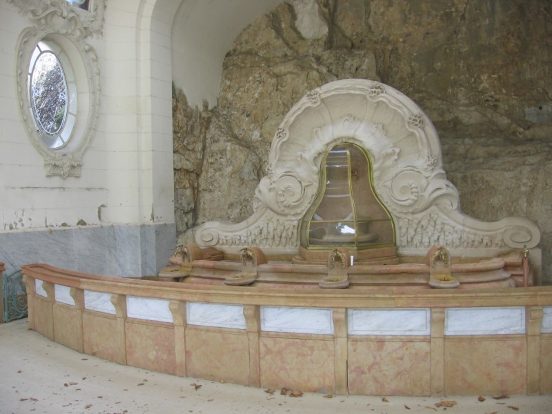 Vichy, France: mineral water source "Cellestine"